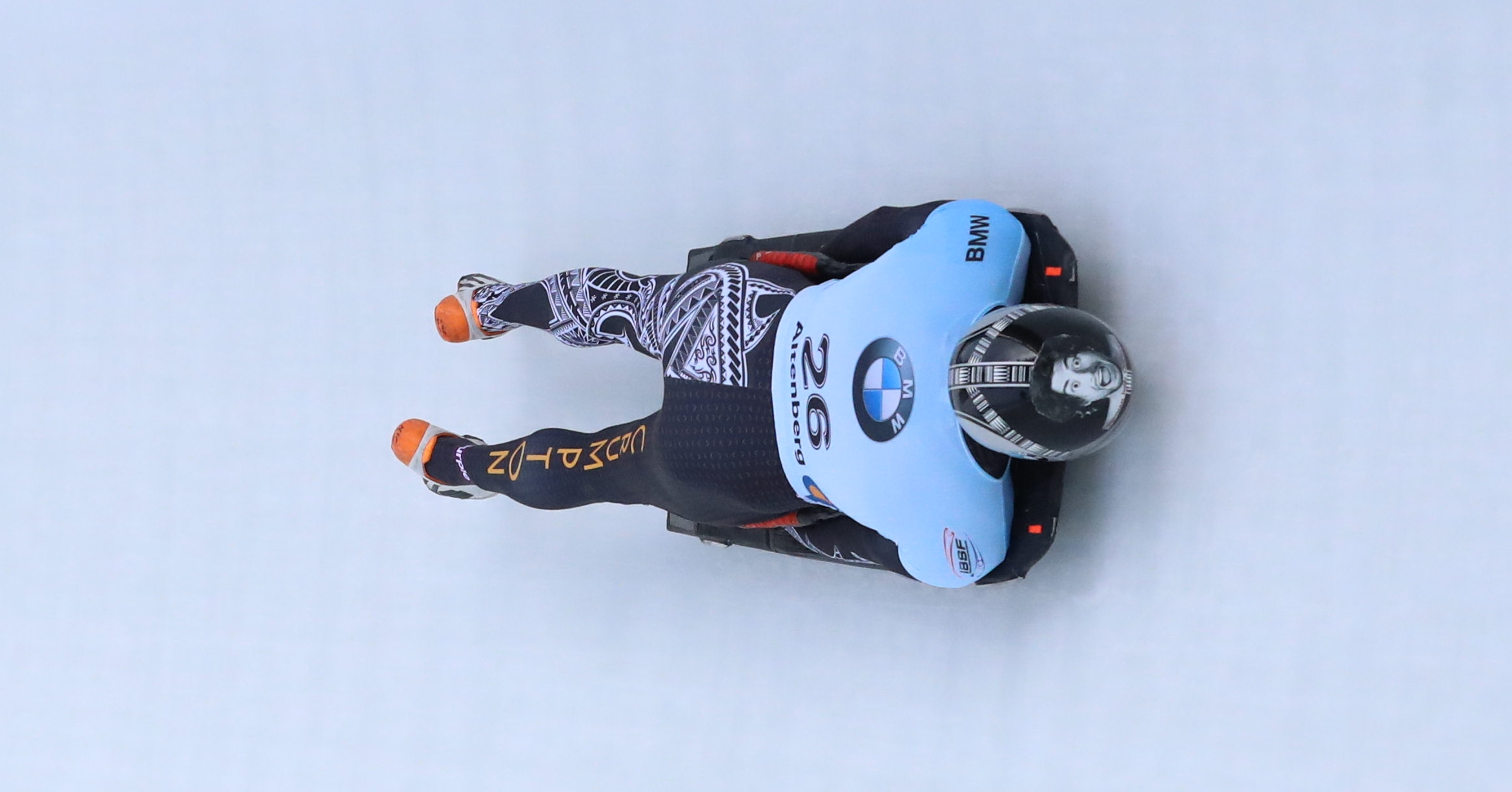 3rd run at the Men's Skeleton at the Bobsleigh and Skeleton World Championships 2020 in Altenberg